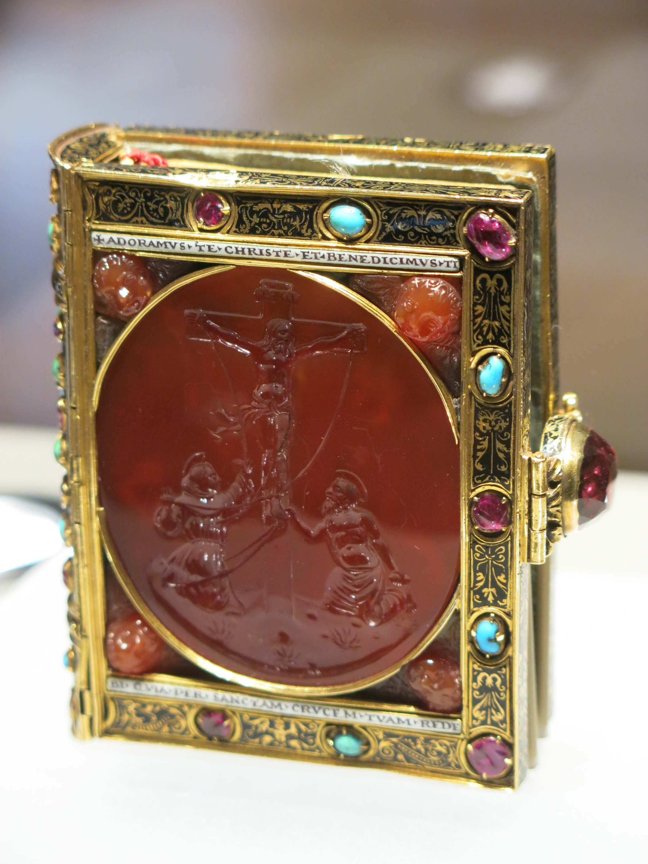 Book of Hours of the king of France Francis I. 1532-1538. Illuminated manuscript of 150 folios with 16 full-page miniatures. Cover with a carnelian intago that feature the Crucifixion of the Christ between Saint-Francis of Assisi and Saint-Jerome. Louvre museum, Paris, France.